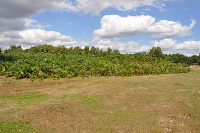 Broome Heath Long Barrow, near to Broome, Norfolk, Great Britain. A view of one of the only preserved long barrows in Norfolk.